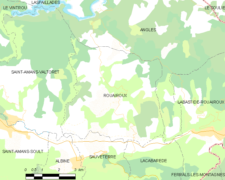 Map commune FR insee code 81231.png - Rouairoux